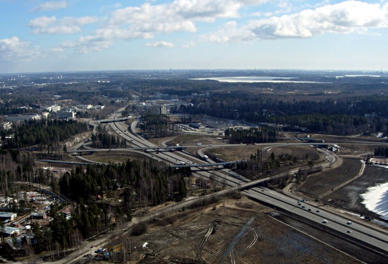 National road 1 in Espoo, Finland